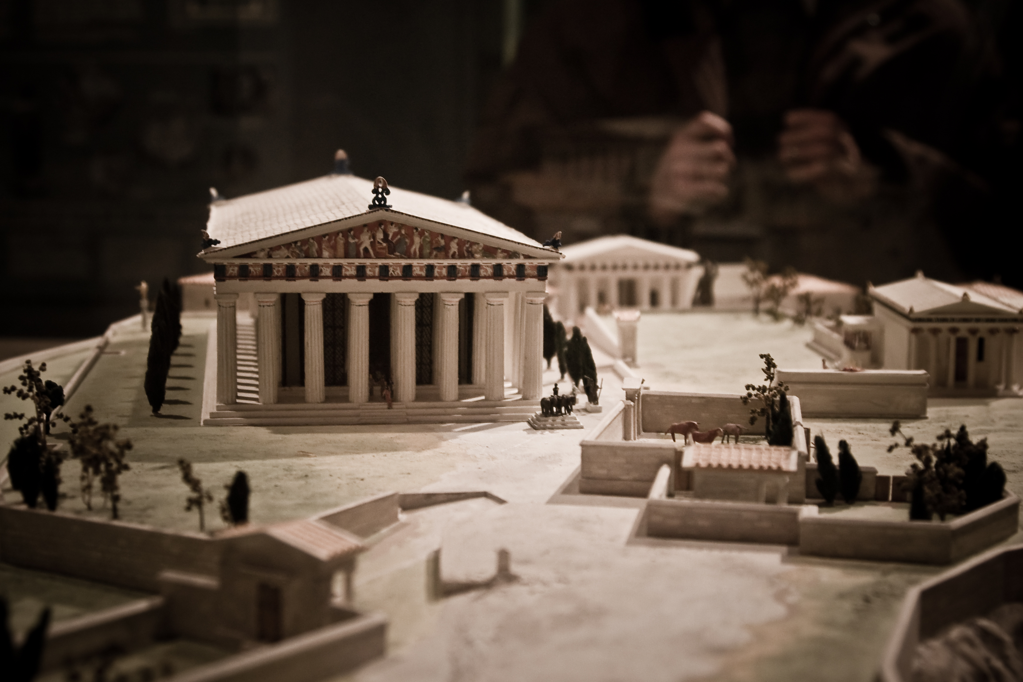 Mini model of the Acropolis in Athens; part of the Greek exhibit. Royal Ontario Museum (Toronto).